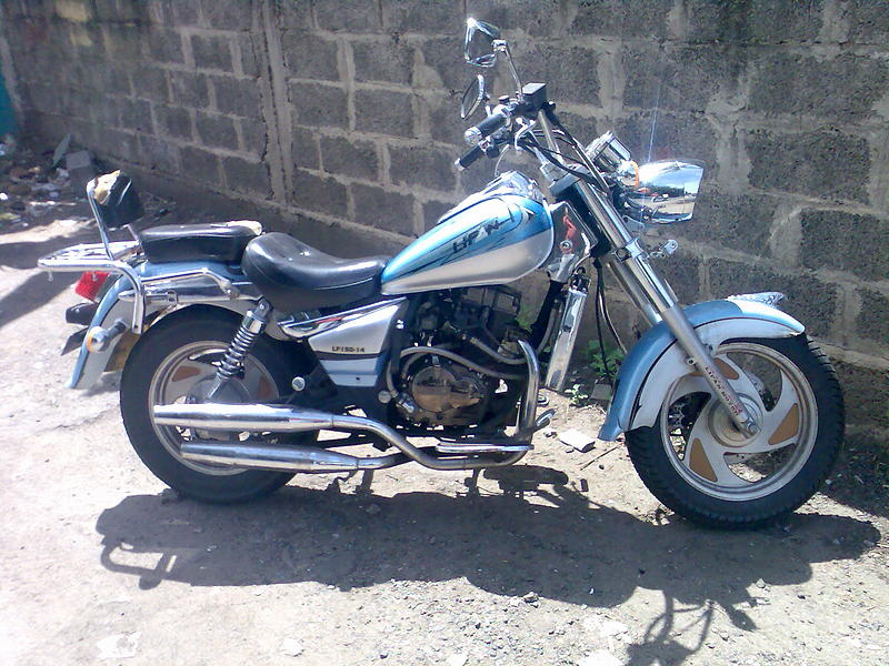 We went to lunch to Aka Roti and noticed that the owner (?) had acquired a new motorcycle...